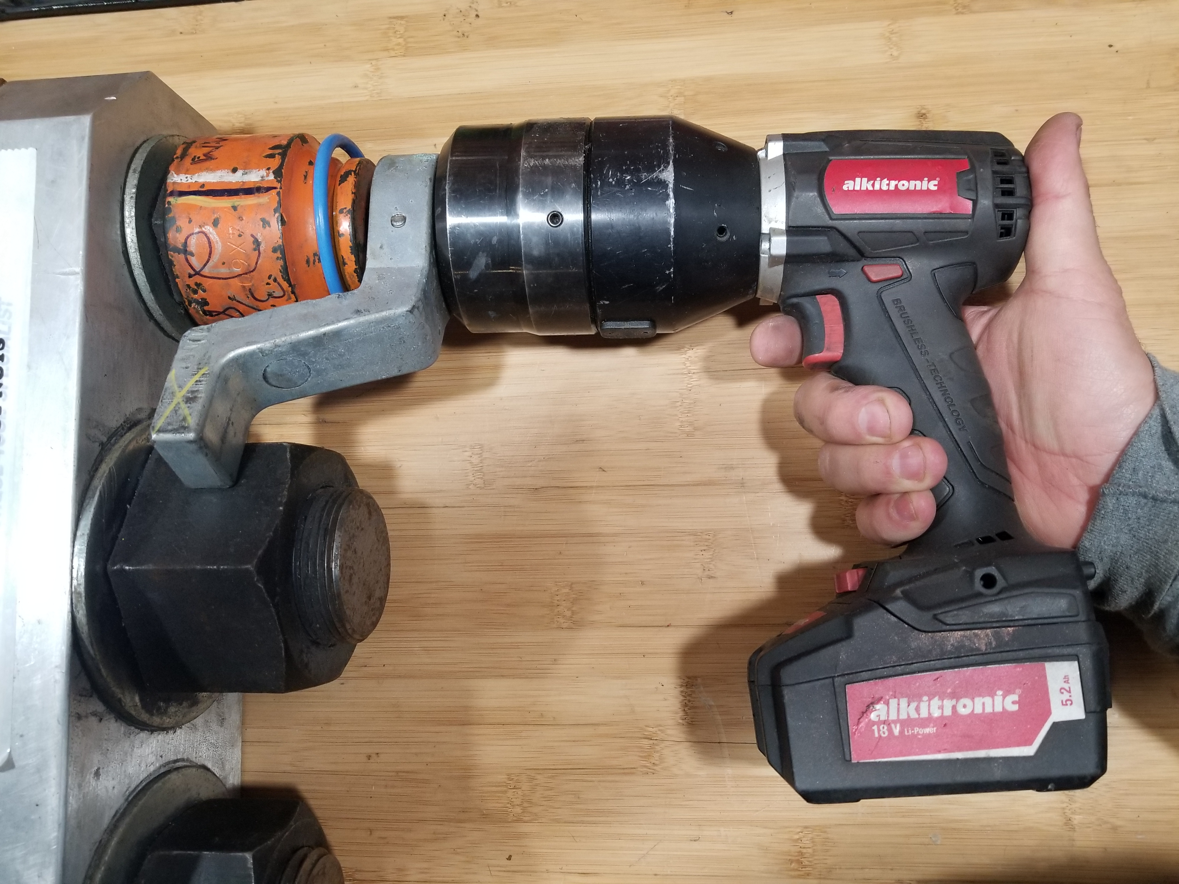 EA TOOL ON FLANGE 03/25/2018